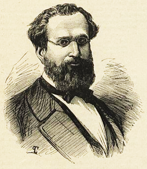 Adriano de Abreu Cardoso Machado, Portuguese politician of the Constitutional Monarchy.